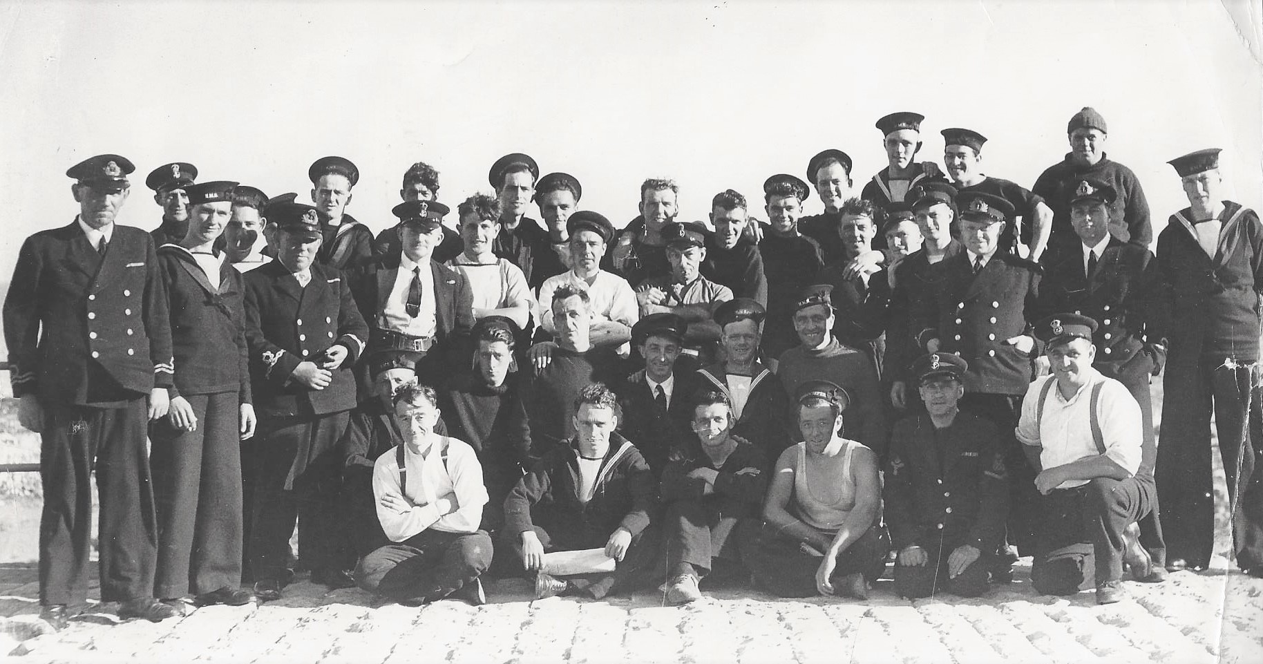 Lt. Cmdr. H Miller (4th from left in front standing row).